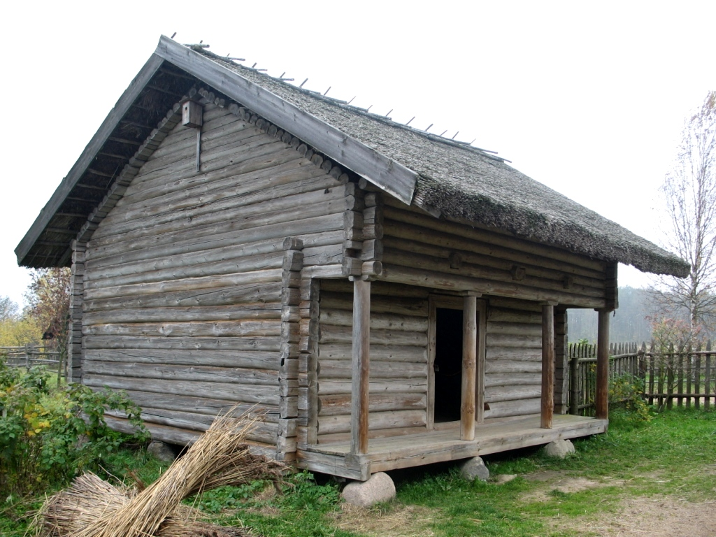 State museum of folk architecture and life, Belarus